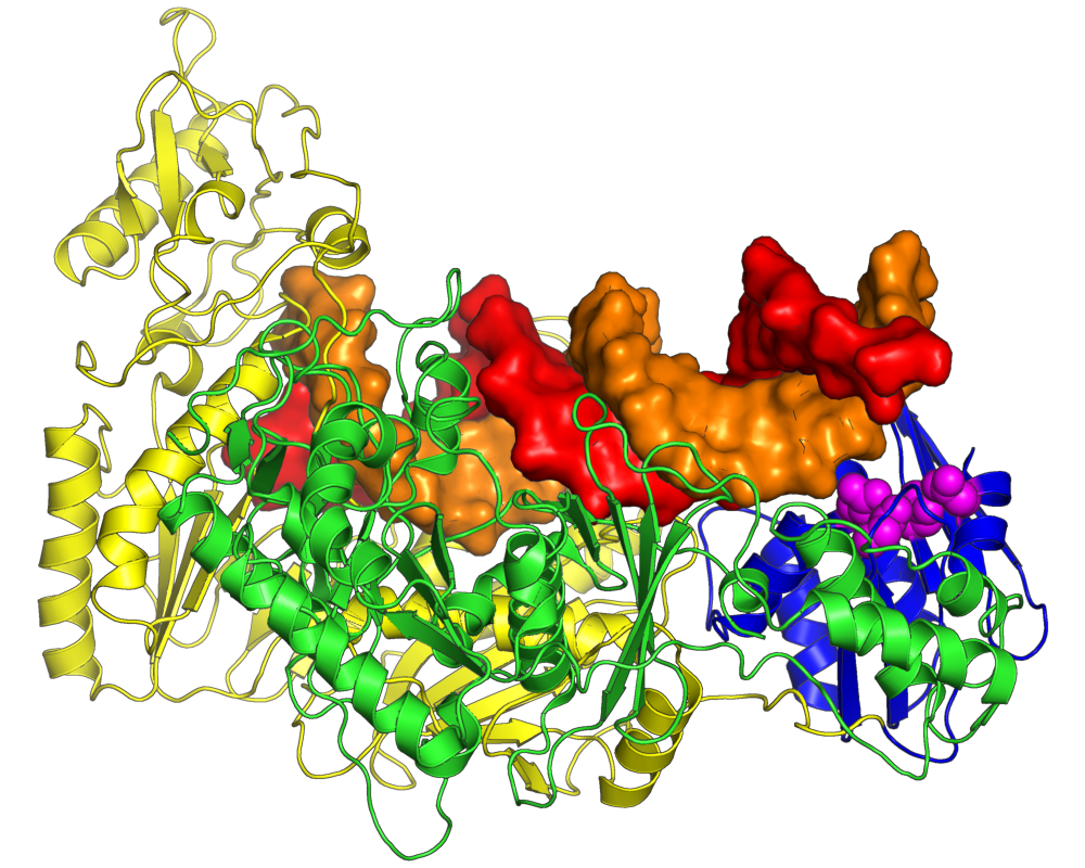 The structure of the HIV reverse transcriptase (RT) heterodimer in complex with an RNA:DNA duplex. The reverse transcriptase p66 fragment is shown in yellow with the C-terminal RNase H domain shown in blue (active site residues in magenta spheres). The orange strand is RNA and the red strand is DNA. The p51 fragment - a differently processed protein equivalent to p66 without the RNase H domain - is shown in green. Rendered from PDB 1HYS. Crystal structure of HIV-1 reverse transcriptase in complex with a polypurine tract RNA:DNA. Sarafianos, S.G., Das, K., Tantillo, C., Clark Jr., A.D., Ding, J., Whitcomb, J.M., Boyer, P.L., Hughes, S.H., Arnold, E. (2001) EMBO J. 20: 1449-1461 PubMed: 11250910 PubMedCentral: PMC145536